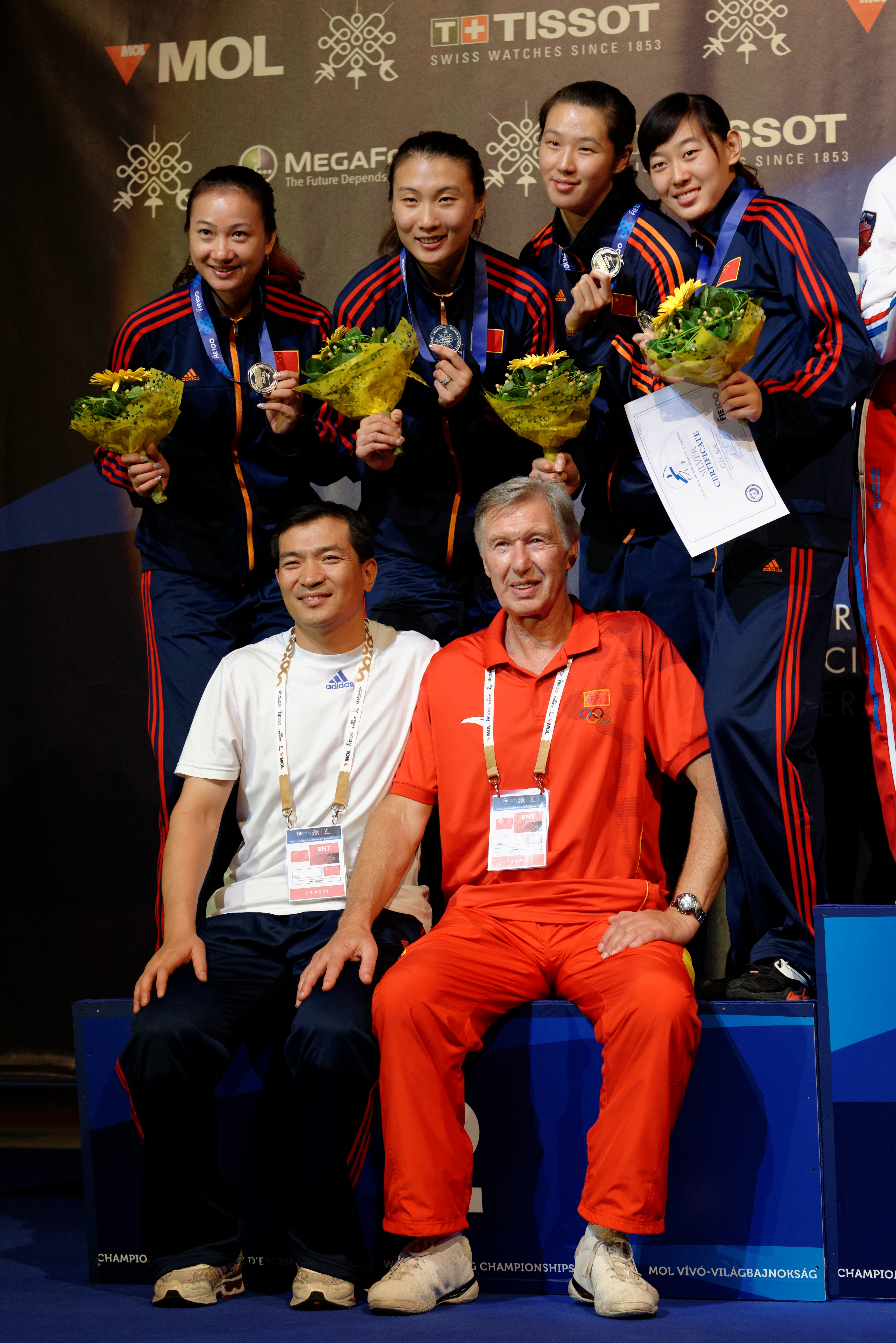 China women's team épée and their coaches stand on the podium of the 2013 World Fencing Championships 2013 at Syma Hall in Budapest, 11 August 2013.